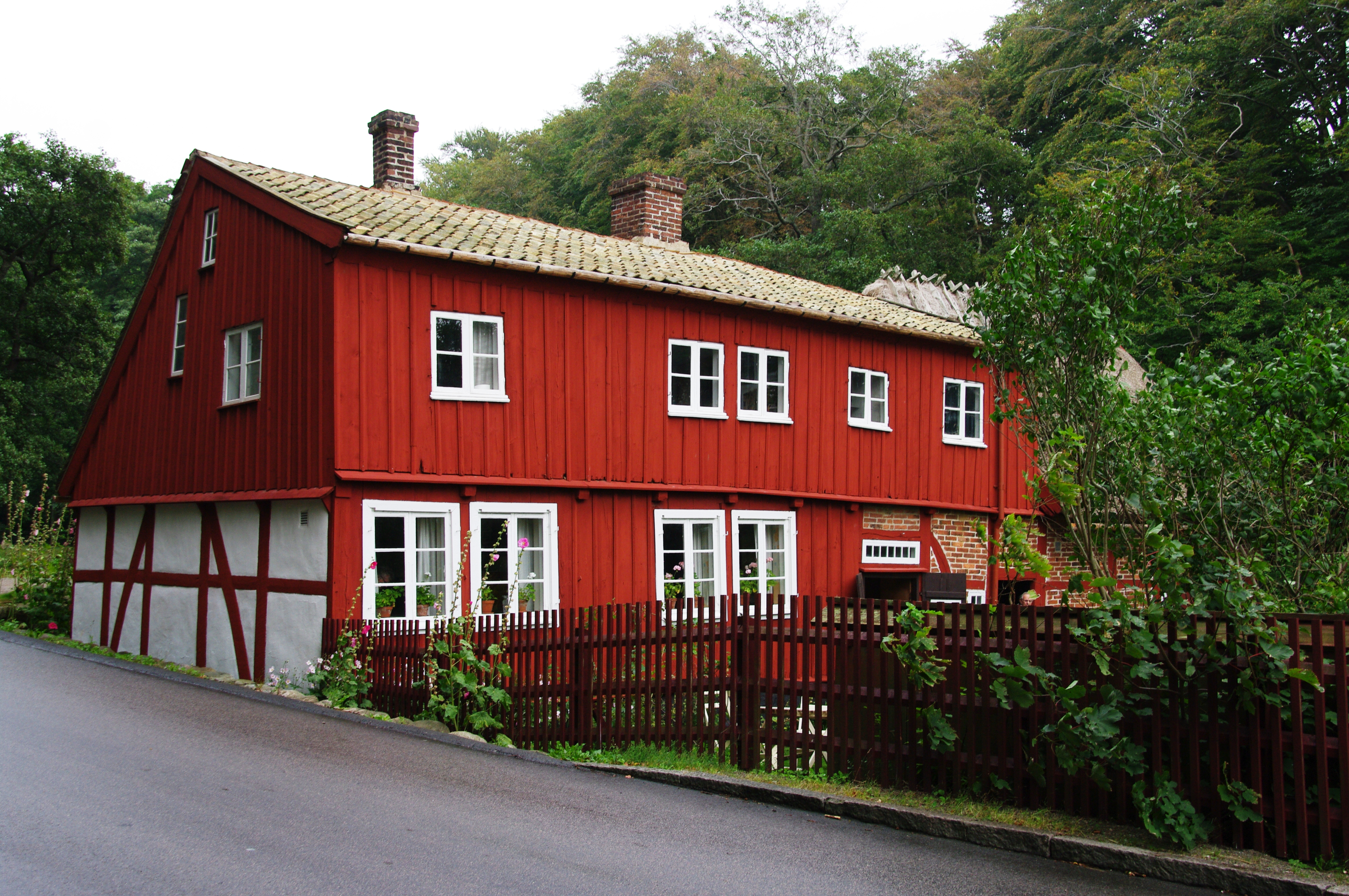 Pålsjö watermill is the only remaining watermill in Helsingborg. Built 1824 on the foundation of a mill from the 18th century.